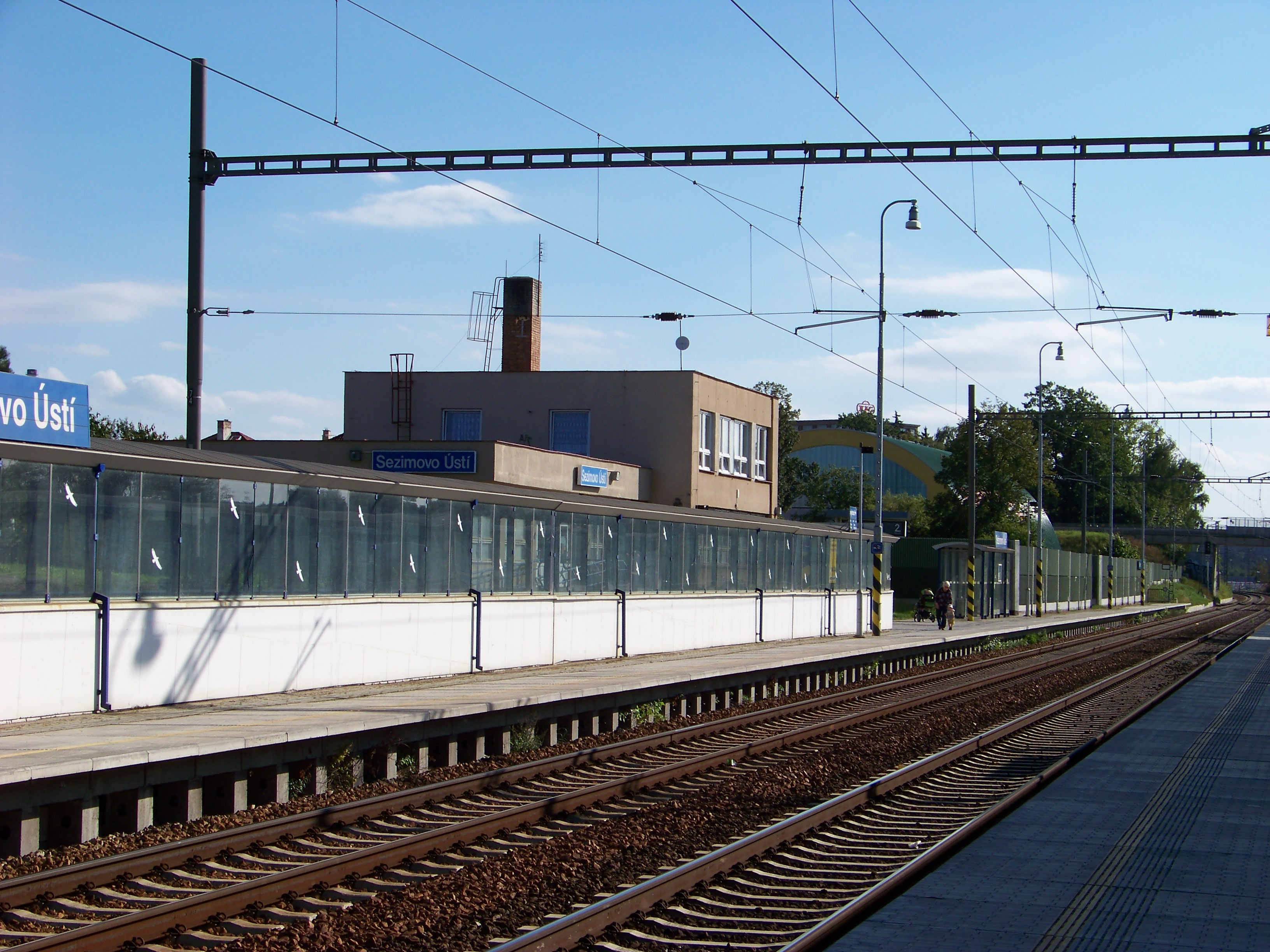 Sezimovo Ústí, Tábor District, South Bohemian Region, the Czech Republic. The train station.